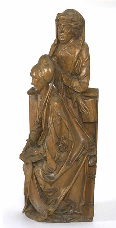 Mary Salome and Zebedee, about 1505-1510, Tilman Riemenschneider V&A Museum no. 110-1878 Techniques - Carved limewood, glazed Place - Würzburg, Germany Dimensions - Height 119.4cm, Width 49.5cm, Depth 29cm